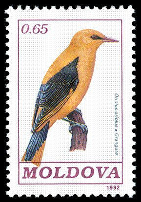 Stamp of Moldova